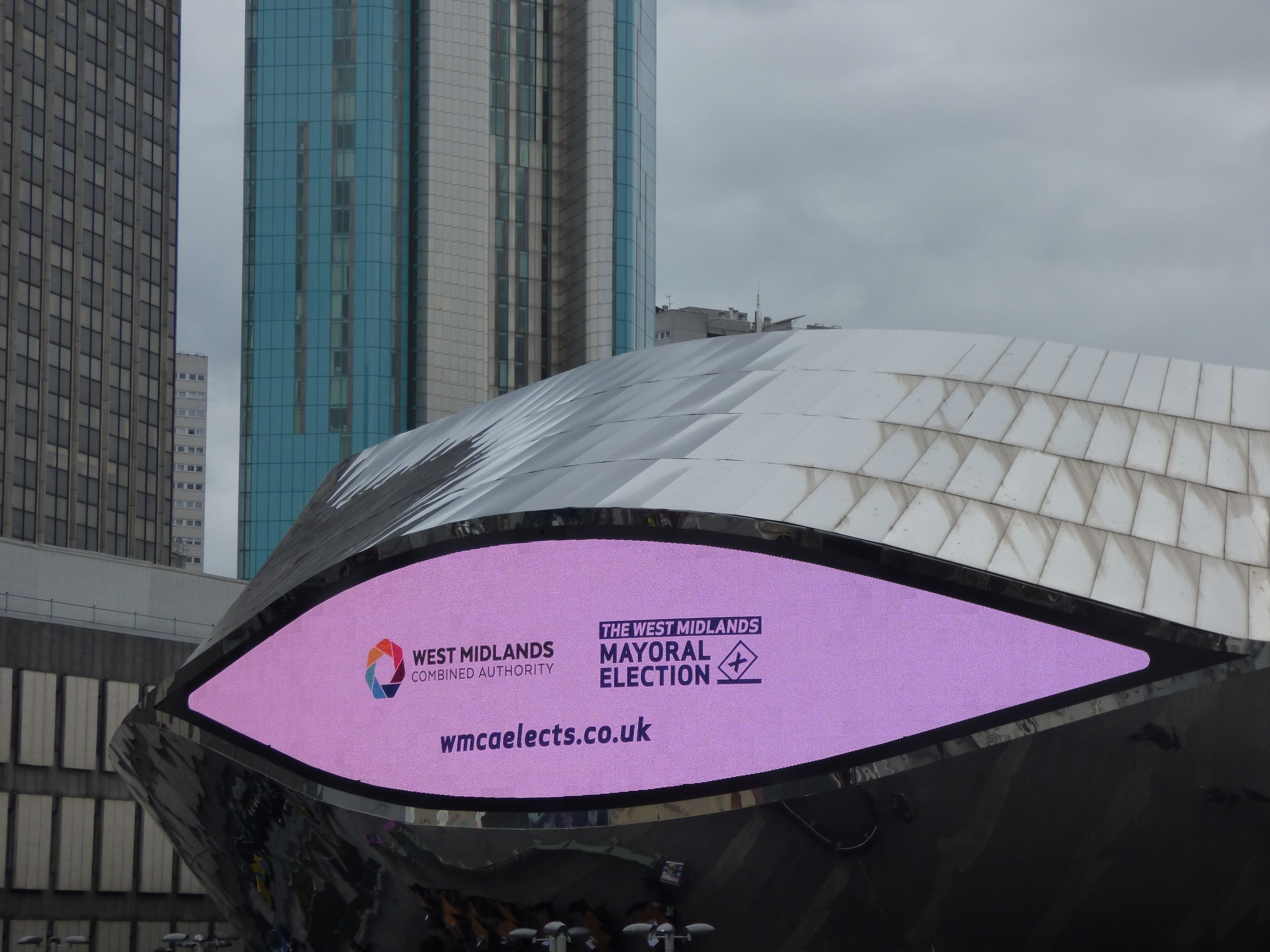 At Birmingham New Street Station the day before Good Friday. St Martin's Queensway eye West Midlands Combined Authority - The West Midlands Mayoral Election Seen from the Moor Street link bridge.